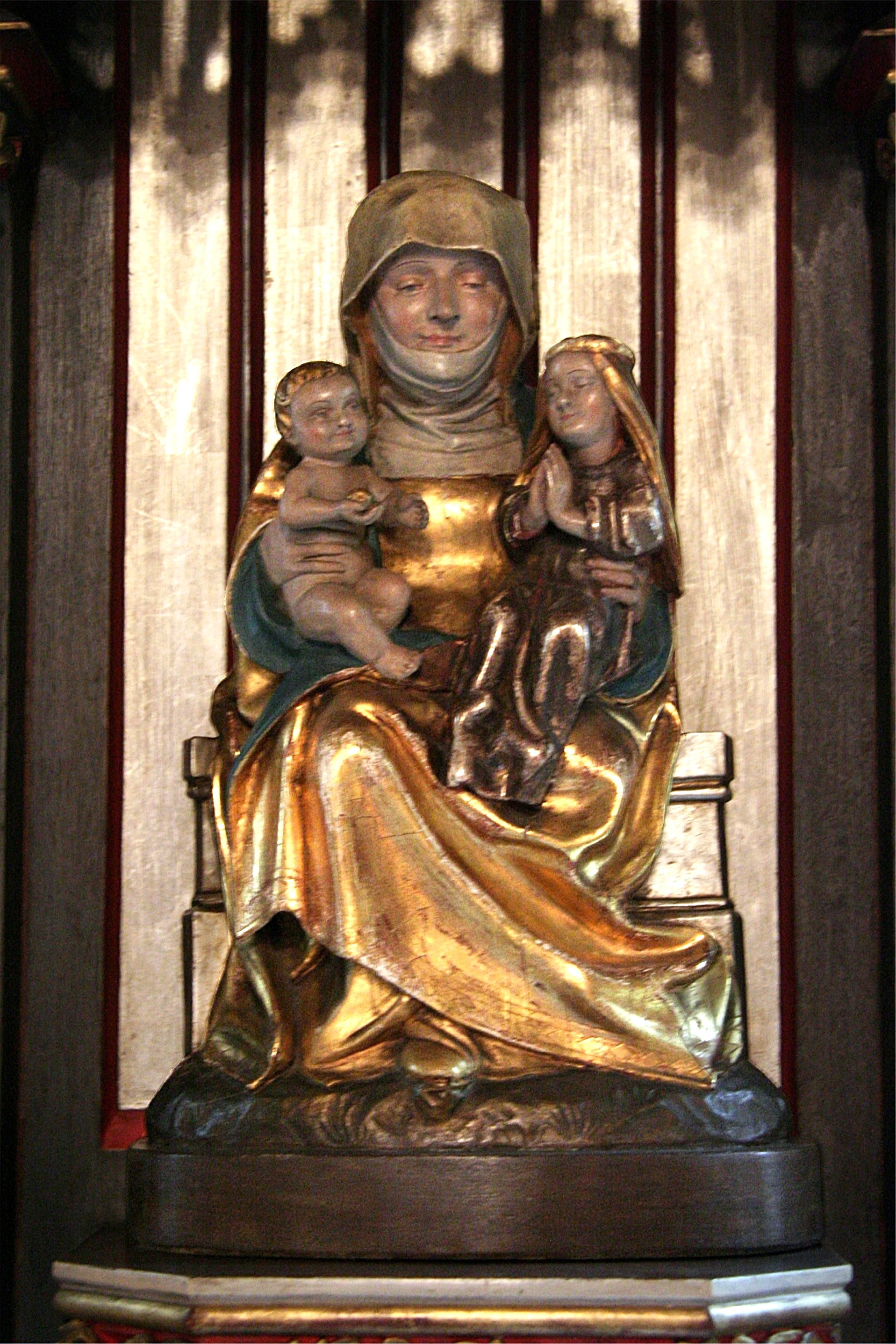 Statue of Virgin and Child with Saint Anne in Monastery Maria Engelport, early 16th ctry.